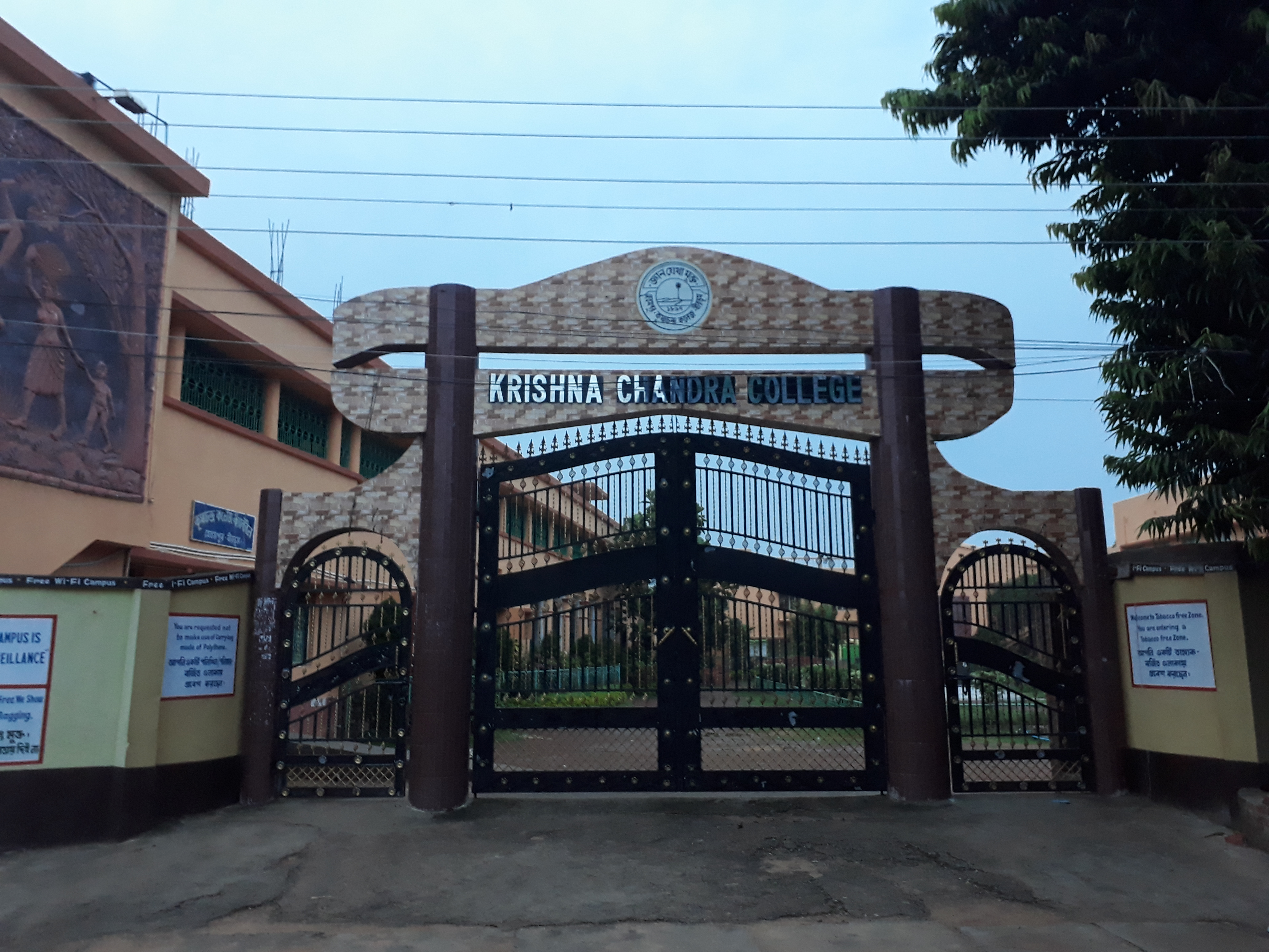 Krishna Chandra College at Hetampur village in Birbhum